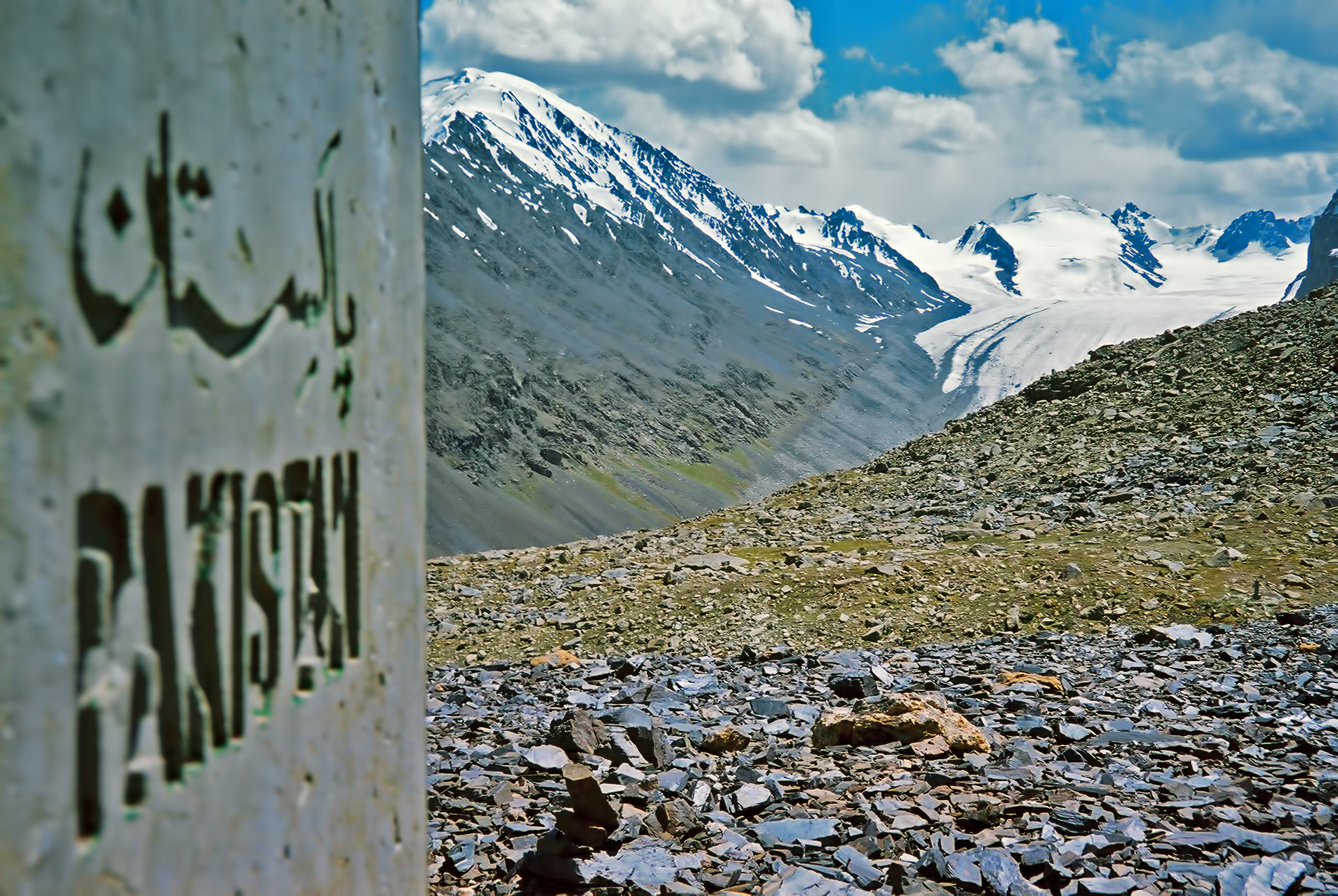 Pakistan has 5 of the world's 14 highest mountains. It also has many scenic and technical and non-technical high passes. Mintaka Pass was the original silk route to China. To date remains of the not so lucky travelers can be found under rocks half buried in makeshift graves along the route. The pass is parallel to the Khunjerab (Khunjerav) Pass and is one of the lesser known treks in Pakistan. The are is rich in wildlife including: Ibex, brown bear and marmots.